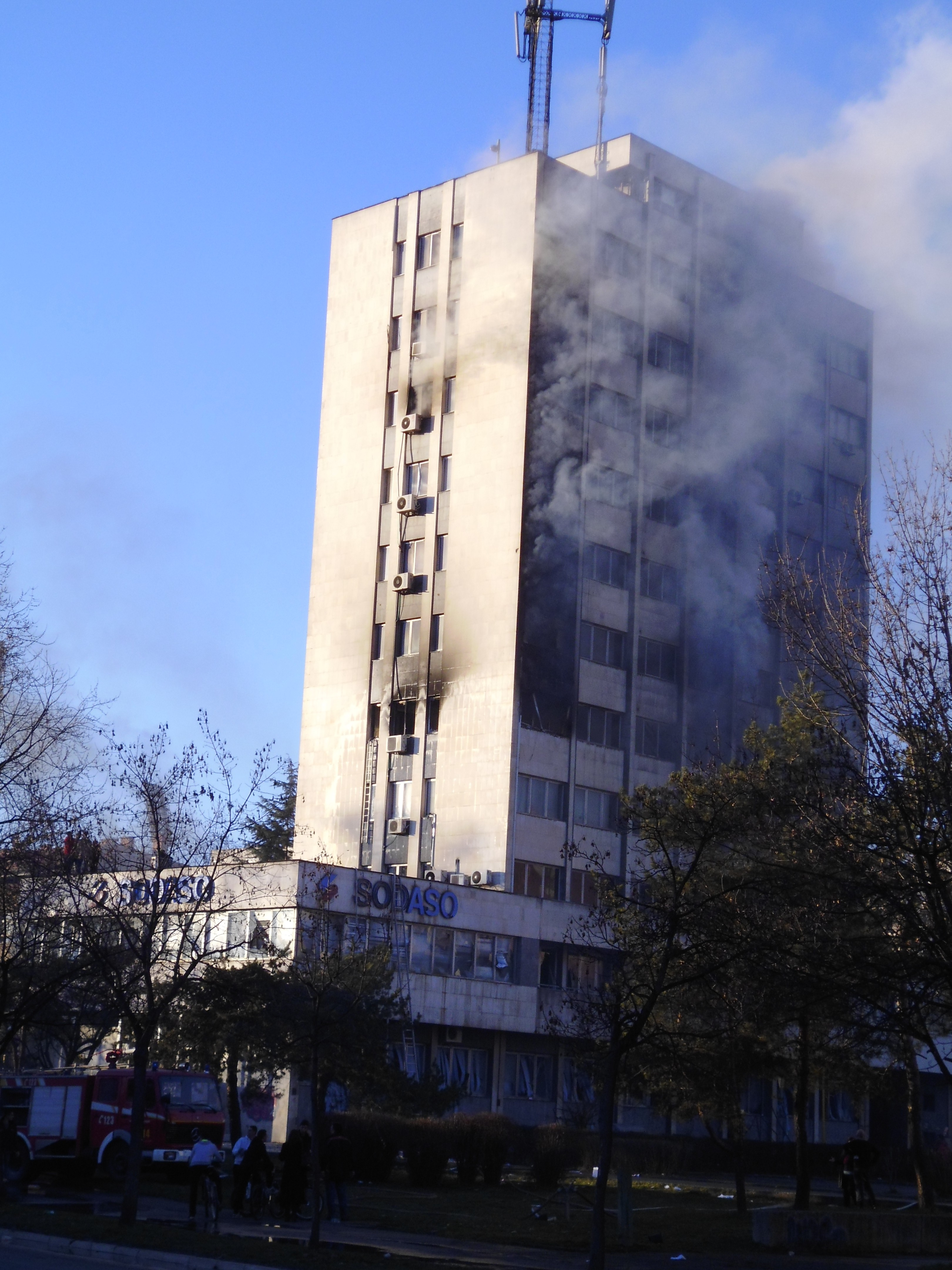 Government Building of Tuzla Canton burning